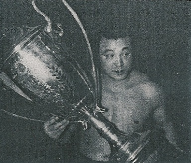 picture of sumo champion Dewaminato holding his one and only emperor's cup, which happened in 1939 - public domain